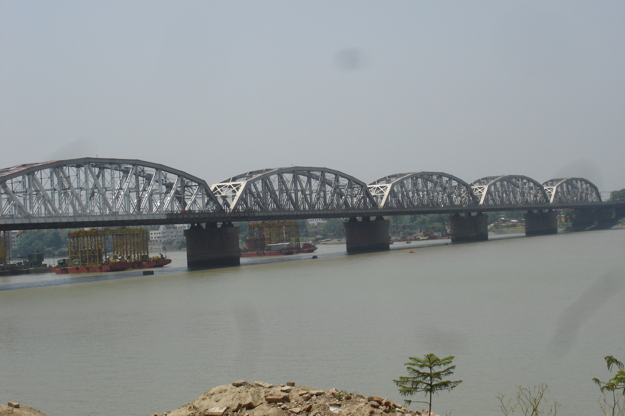 This Picture of Vivekanda Setu was captured by me during my recent tour to the Dhakineshwar Temple in Kolkata